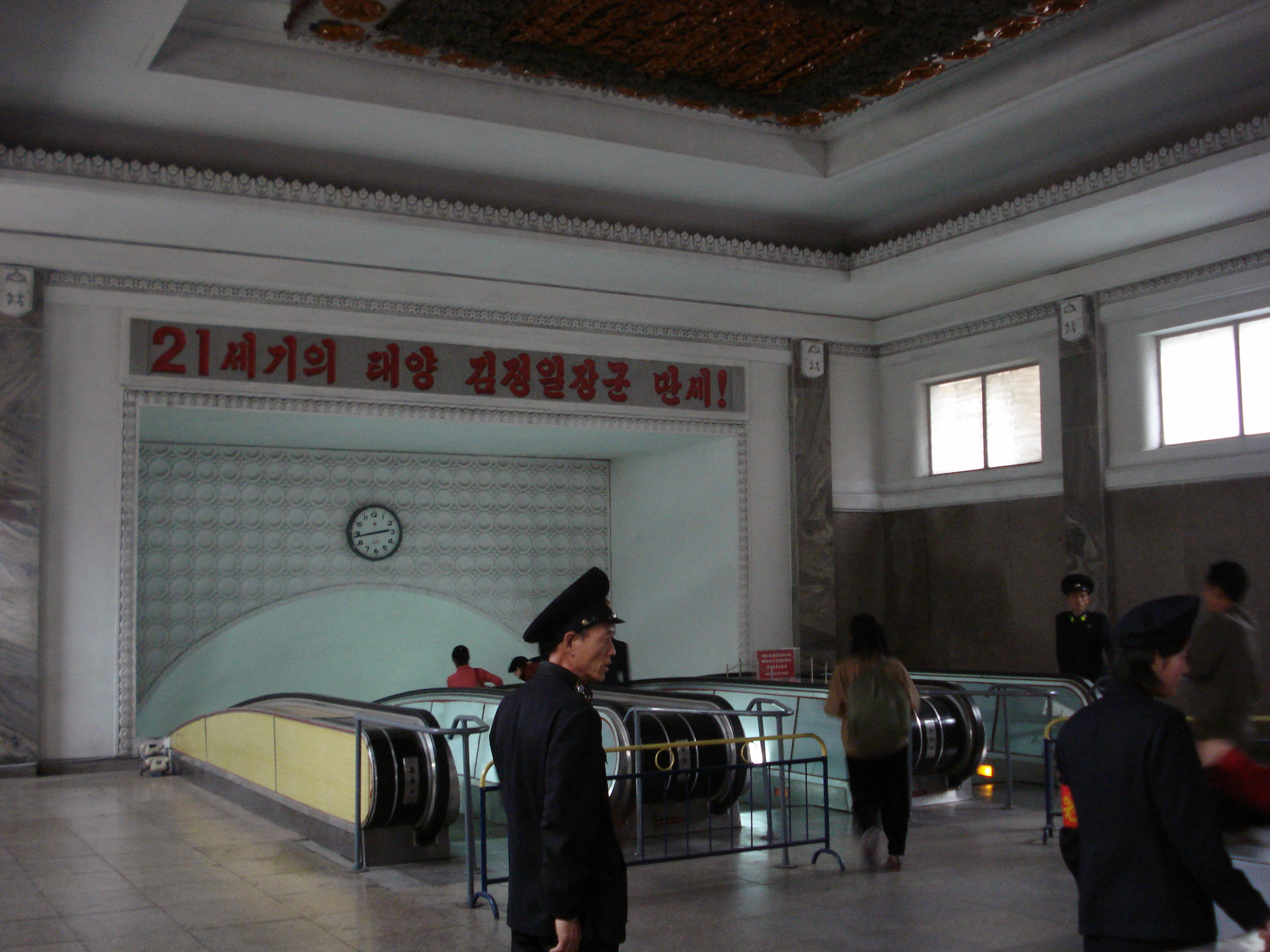 Pyongyang metro